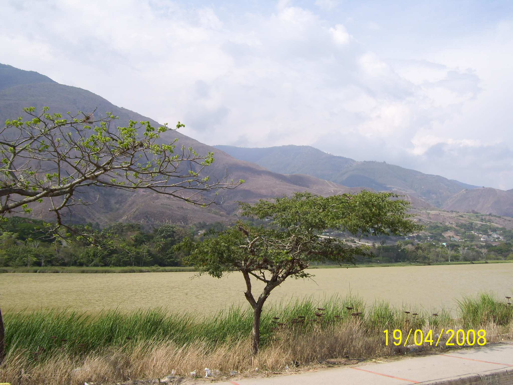 cují in the border of the lagoon